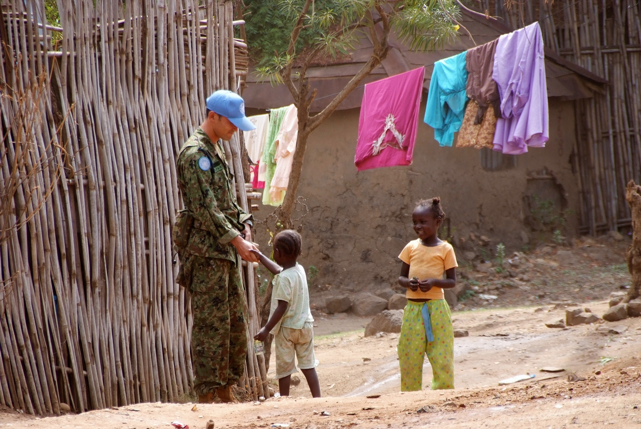 Title 南スーダン_R.jpg Album 国際平和協力活動等（及び防衛協力等） 国連南スーダン共和国ミッション